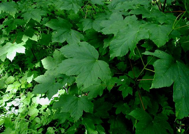 Name Acer pseudoplatanus Family Sapindaceae